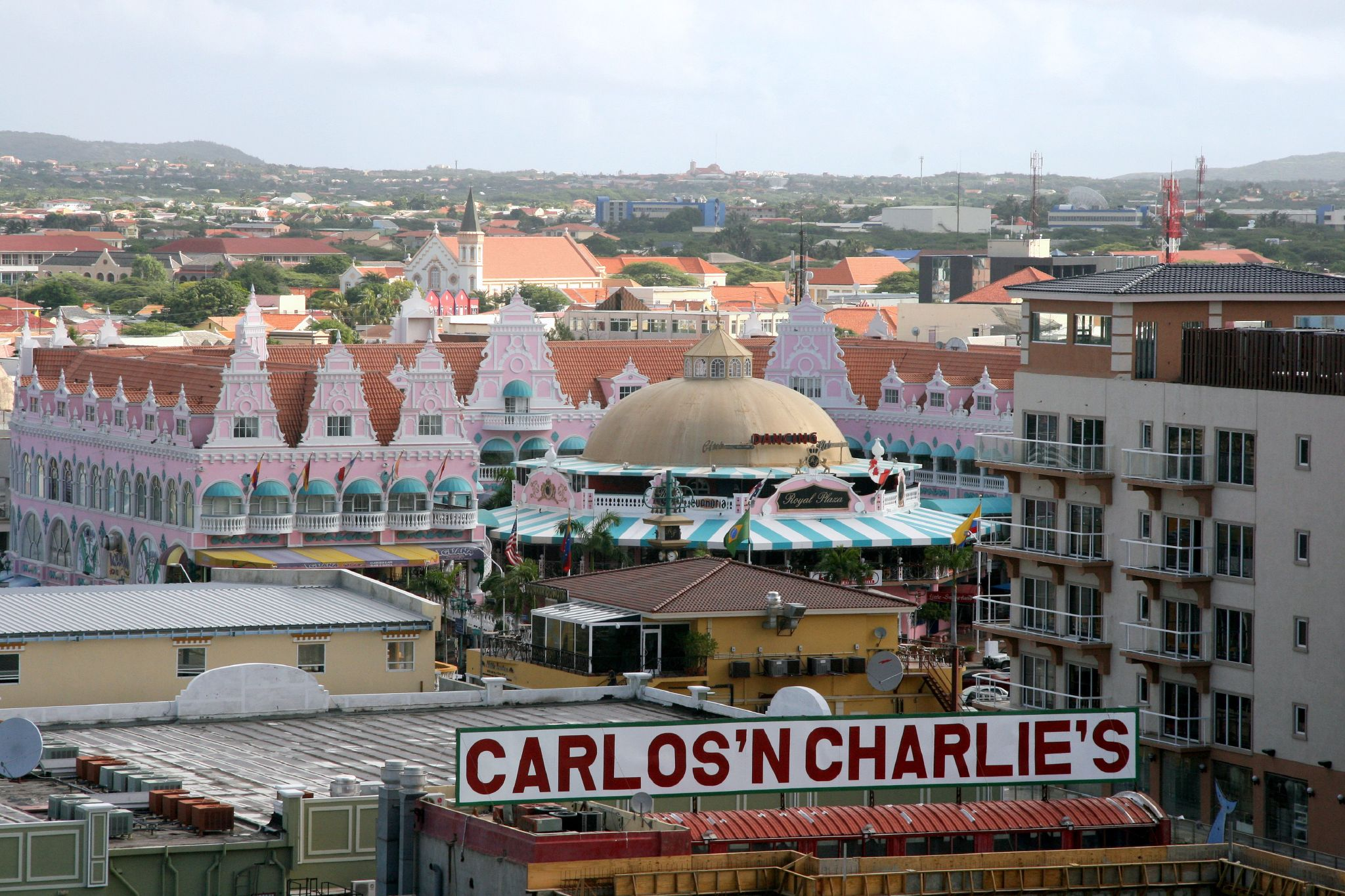 Carlos'n Charlie's (now Señor Frog's) in downtown Oranjestad, Aruba.